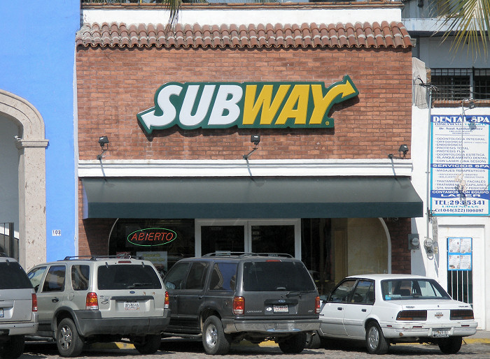 A Subway restaurant franchise in the city of Puerto Vallarta, Jalisco, Mexico. This particular franchise is on Boulevard Francisco Medina Asencio near the city's Hotel Zone.